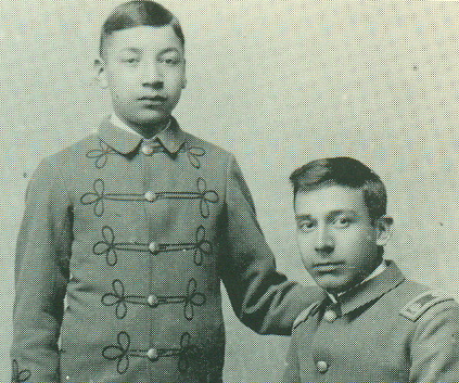 Dennison and James Wheelock, Carlisle Indian School, Carlisle, Pennsylvania. Other information No.